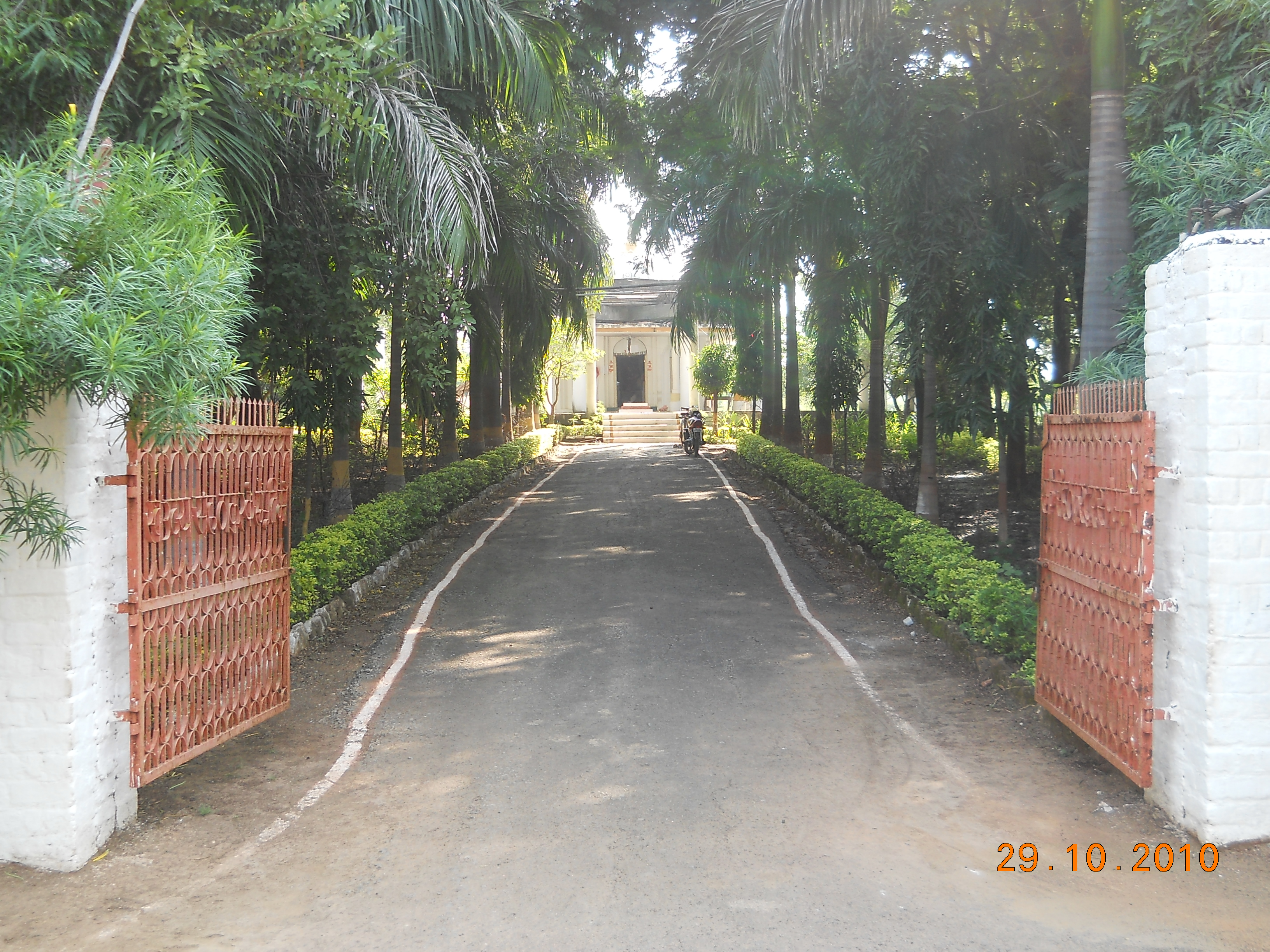 The temple located inside the campus, 10 minutes walk from the college's main building